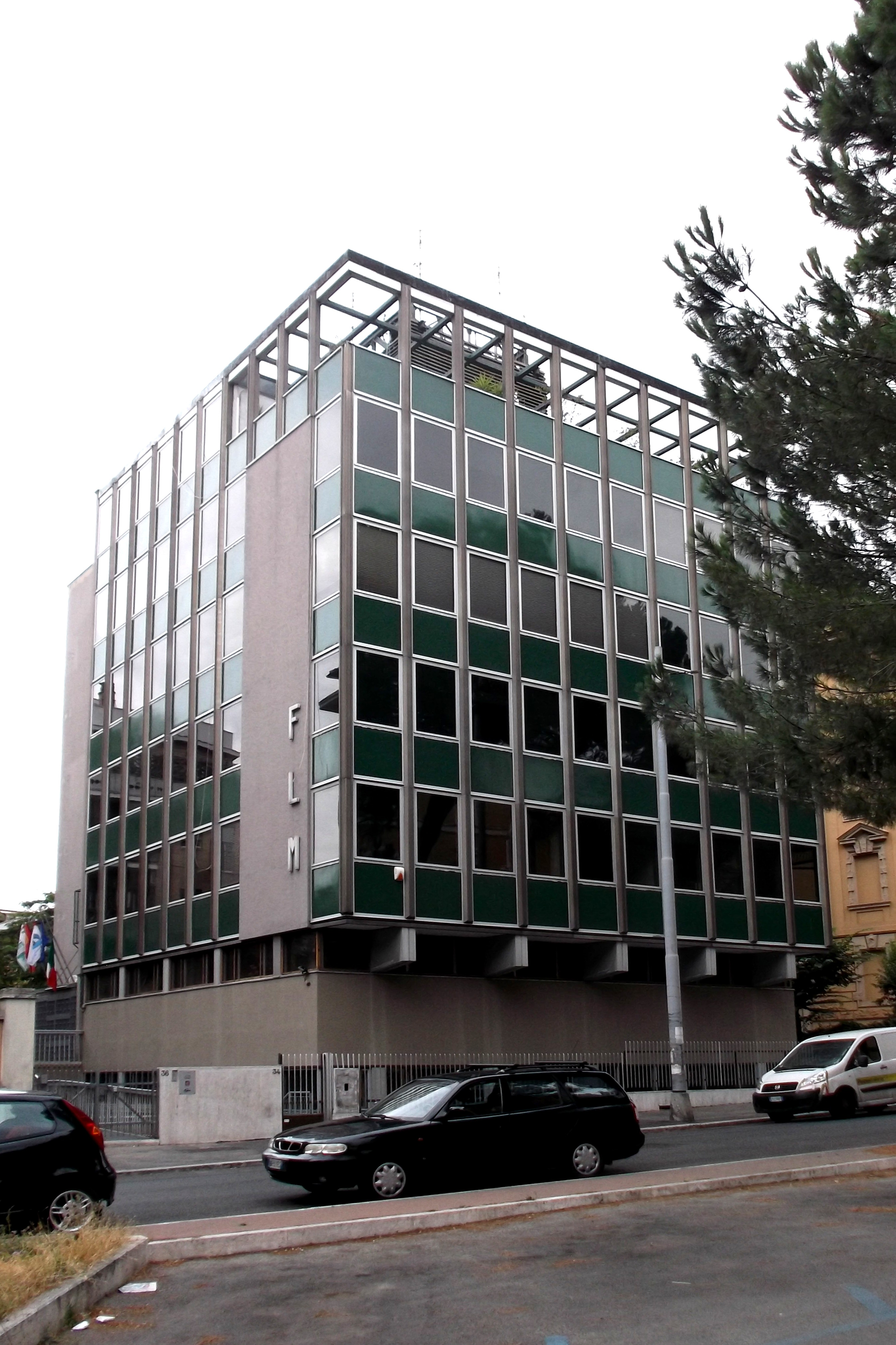 Historical headquarter of FLM (Federazione Lavoratori Metalmeccanici, the Italian metalworkers' trade union) in Rome. Today the organization's name is FIOM (Federazione Impiegati e Operai Metalmeccanici, trade union of both white and blue collars working in the metal industry